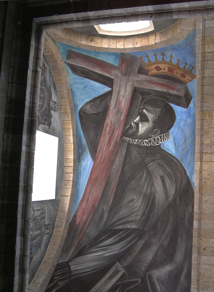 A Mural painting from Orozco in Hospicio Cabañas, Guadalajara, Mexico. My own work, shot in October, 2006.